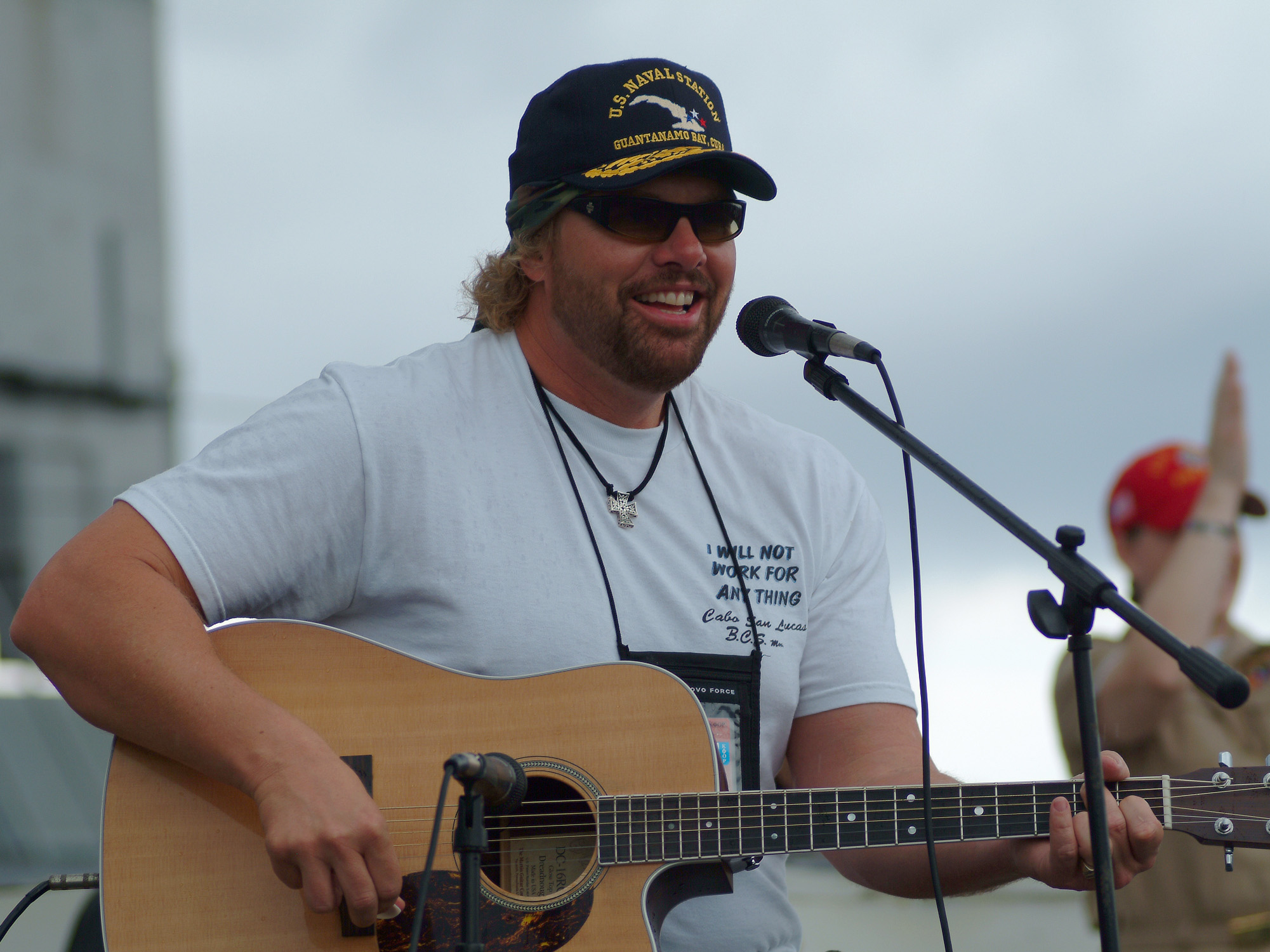 Guantanamo Bay, Cuba (May 12, 2005) - Two-time consecutive Academy of Country Music Entertainer of the Year Toby Keith performs for Sailors aboard USS Austin (LPD 4) who were in Guantanamo Bay, Cuba for a port visit. Keith began his multi-country USO tour in Cuba before continuing on to shows in Germany, Belgium, and the Persian Gulf. During the trip, Keith played number one hit songs, "A Little Less Talk and a Lot More Action," "Should've Been a Cowboy," "Wish I Didn't Know Now," and recent hit "American Soldier." U.S. Navy photo by Journalist 2nd Class Brandan W. Schulze (RELEASED)